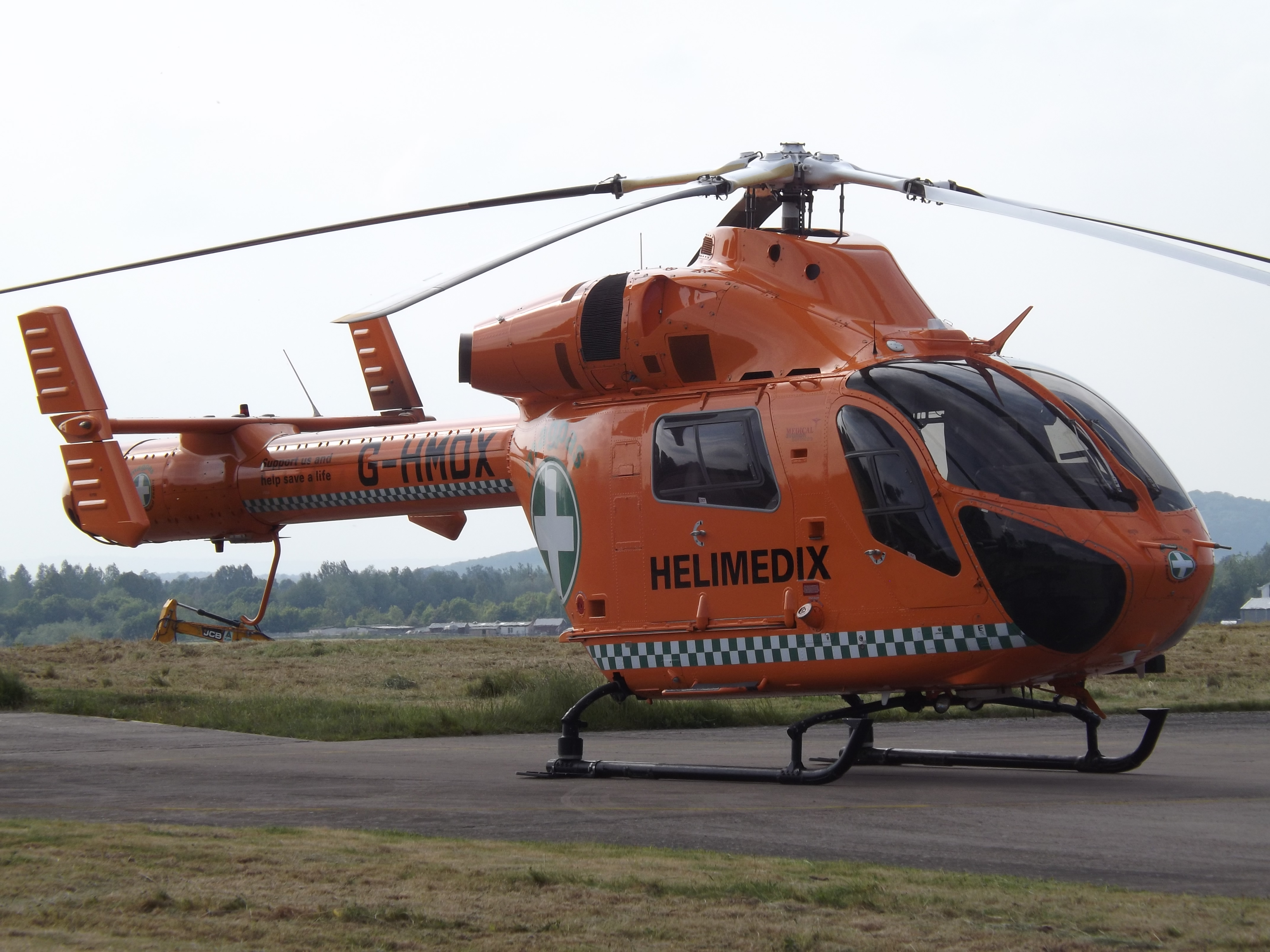 At Gloucestershire Airport.